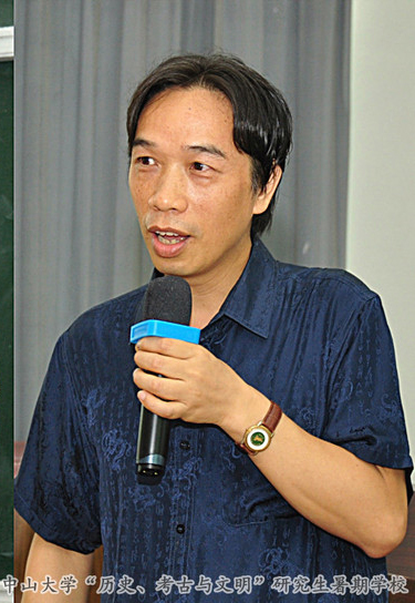 Prof Lixin Guo